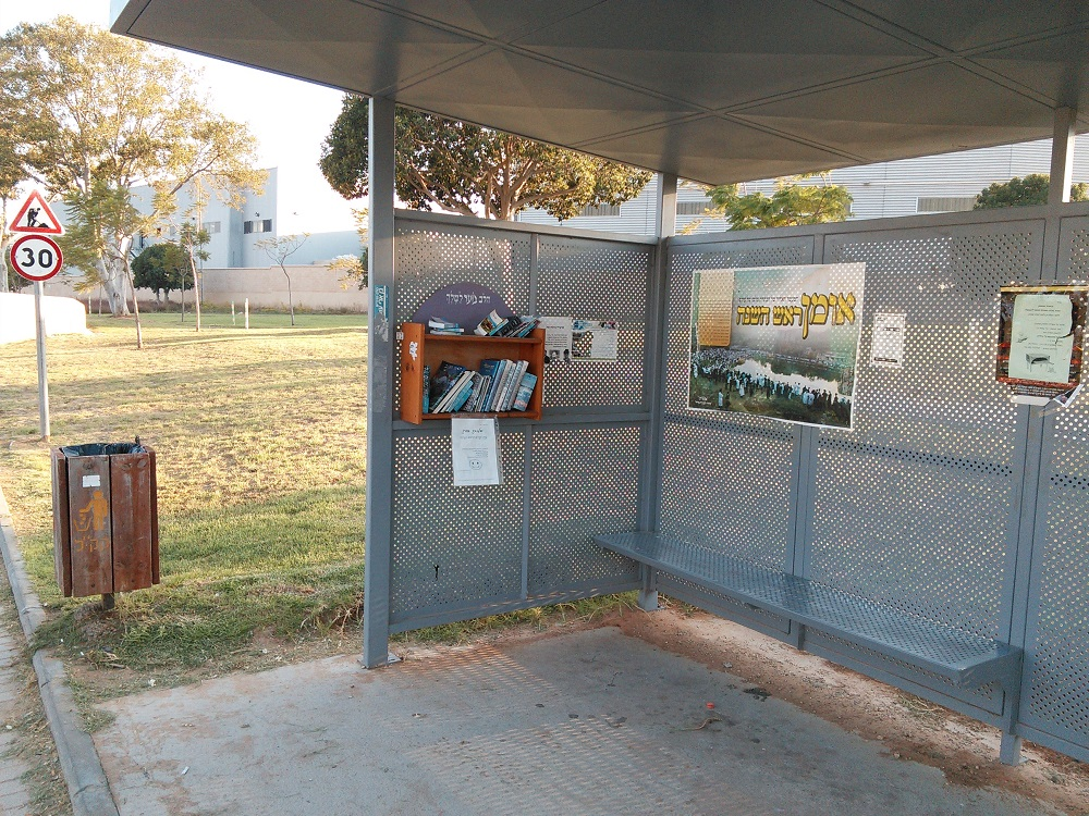 A bus shelter in Yad Binyamin